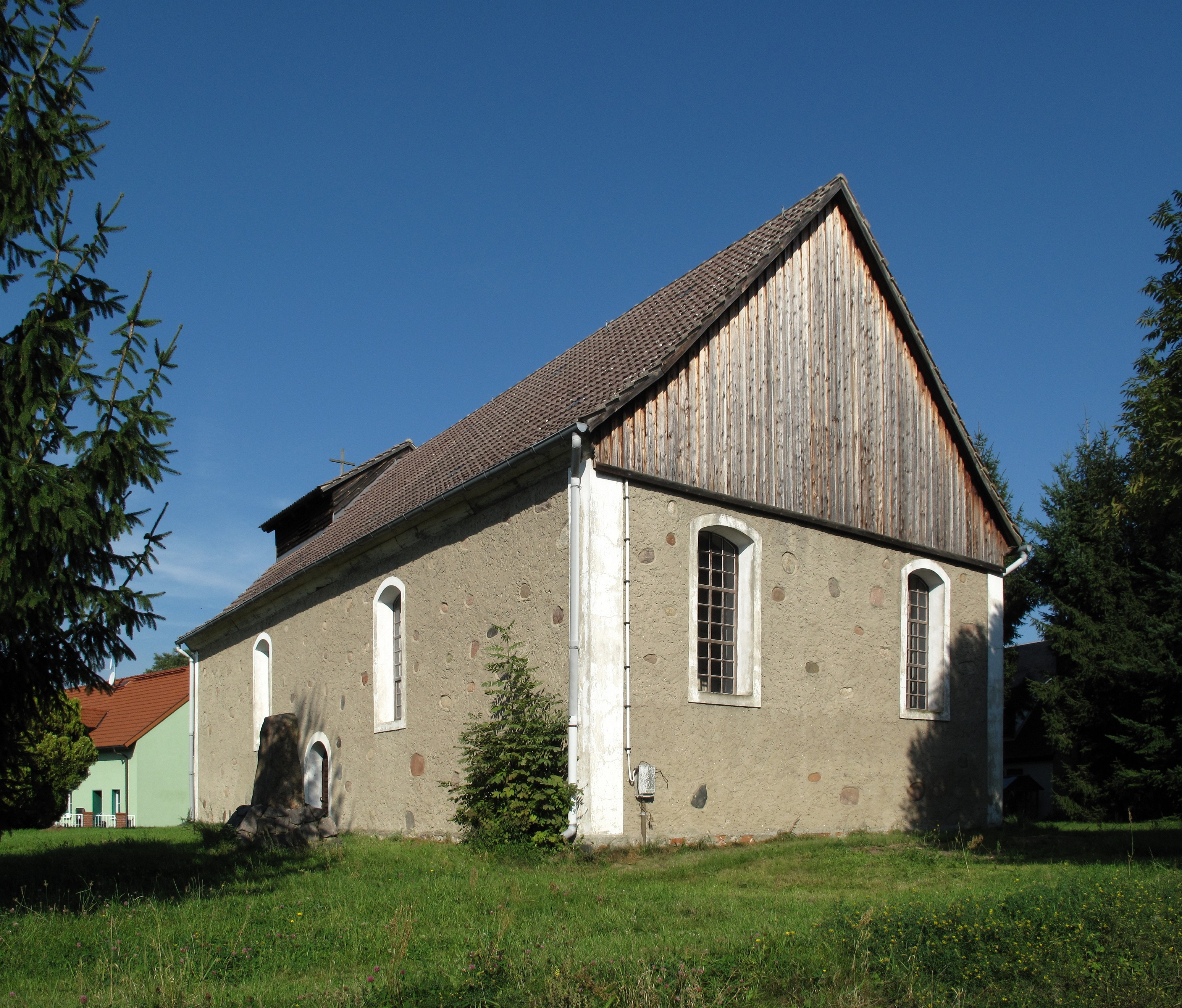 Listed protestant village church in Görsdorf. Görsdorf is a part of the municipality Tauche in the District Oder-Spree, Brandenburg, Germany. The fieldstone church was probably built in the 14th century, in 1945 heavily destroyed and rebuilt in 1948/49.